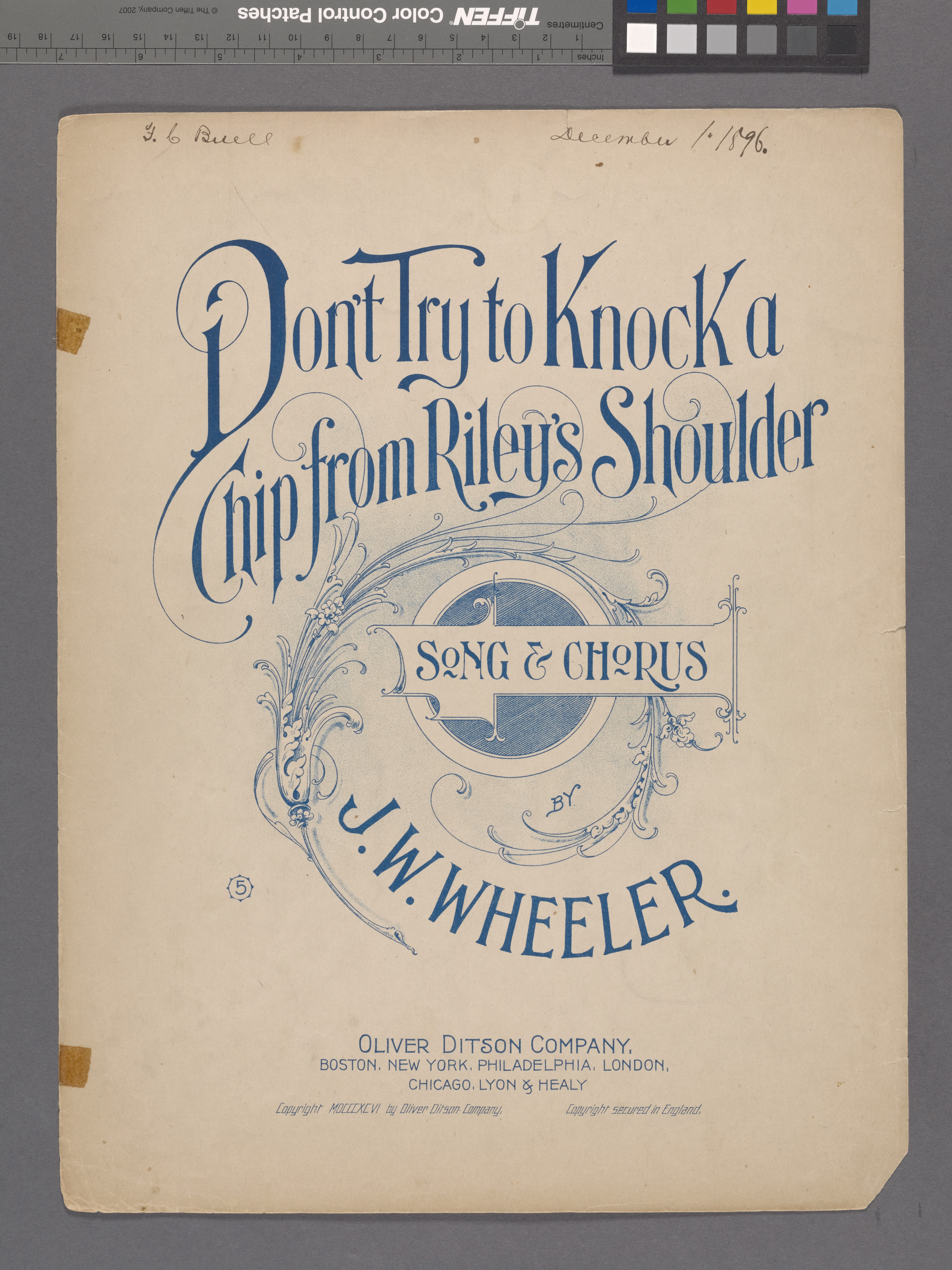 Signature of former owner on cover at top: F. L. Buell, December 1, 1896. Summary: Riley and his wife are recent arrivals in America from Ireland; Riley is bold, so don't cross him. Statement of responsibility : song and chorus by J.W. Wheeler.